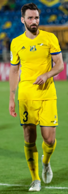 Maciej Wilusz with FC Rostov in a game against FC Dynamo Moscow.